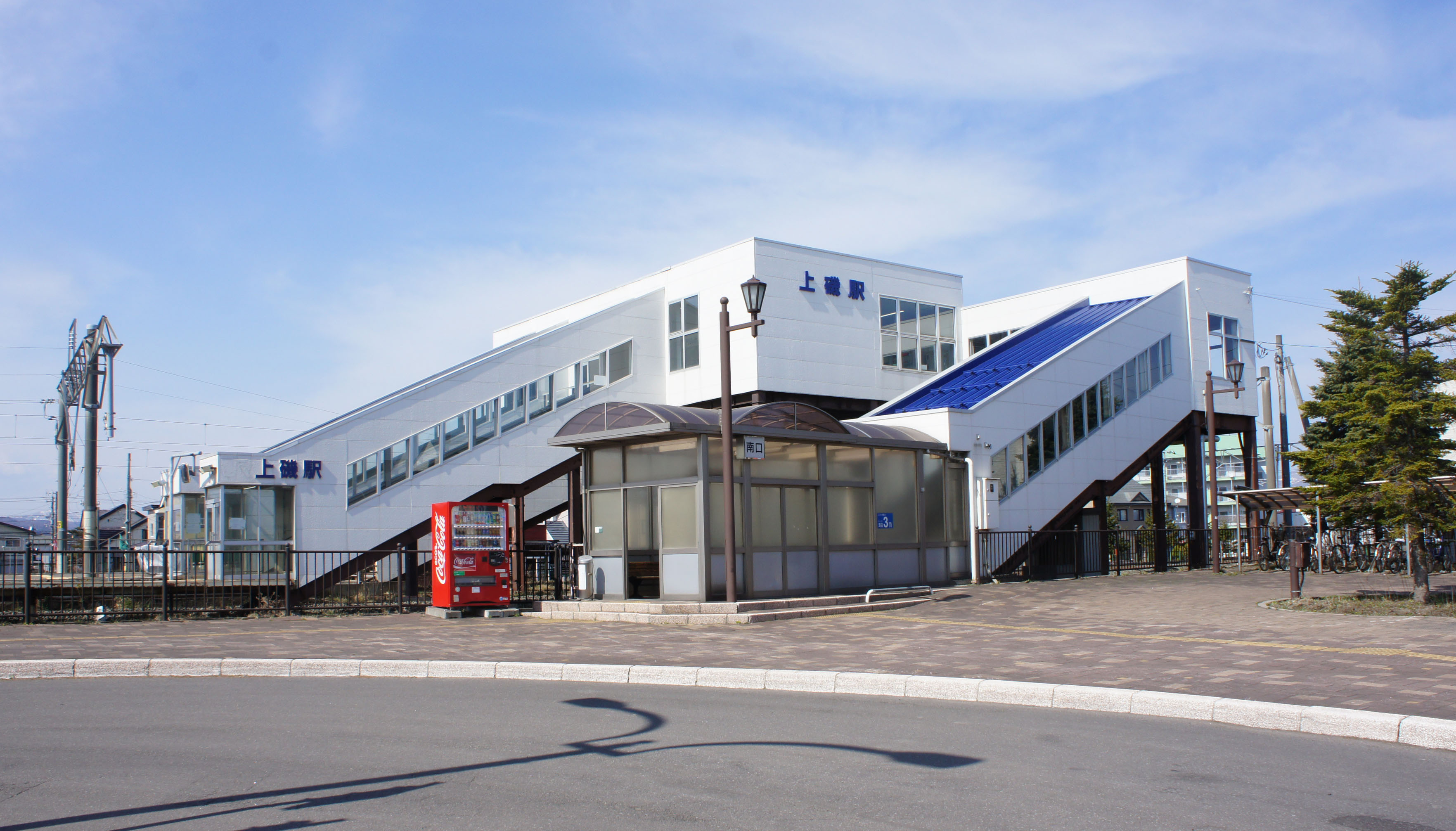 South Exit of South Hokkaido Railway Line Kamiiso Station Sony NEX-3 + E 18-55mm F3.5-5.6 OSS